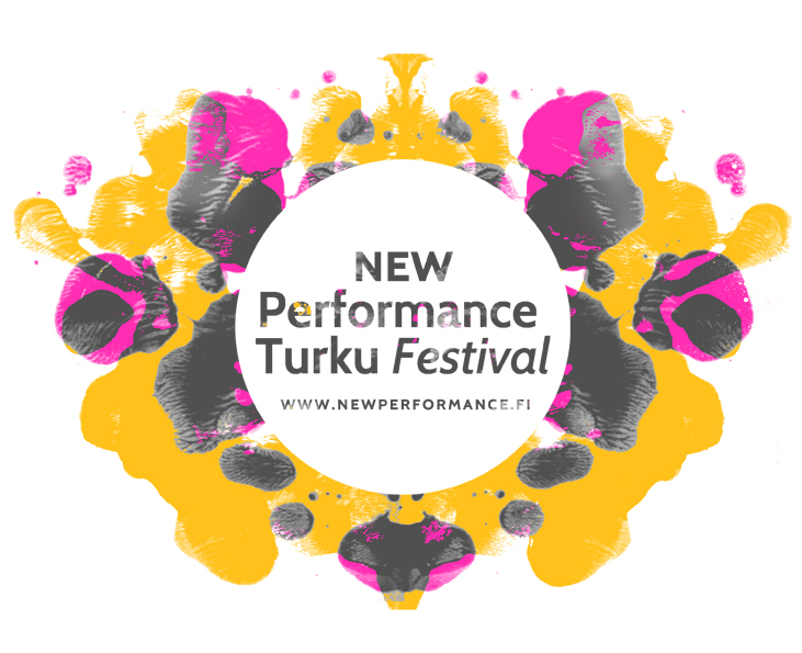 Logo for New Performance Turku Festival